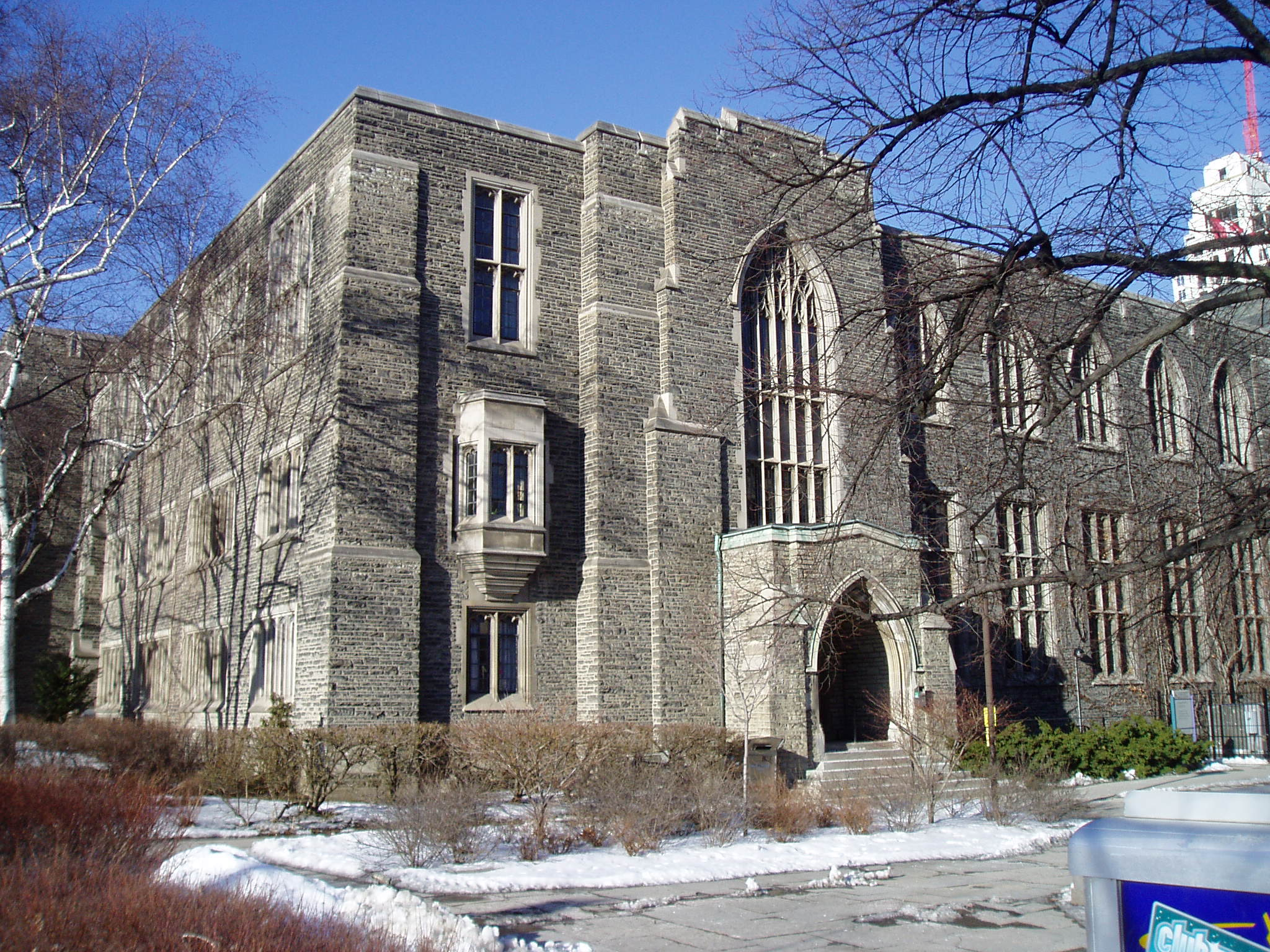 Emmanuel College, University of Toronto, taken by SimonP